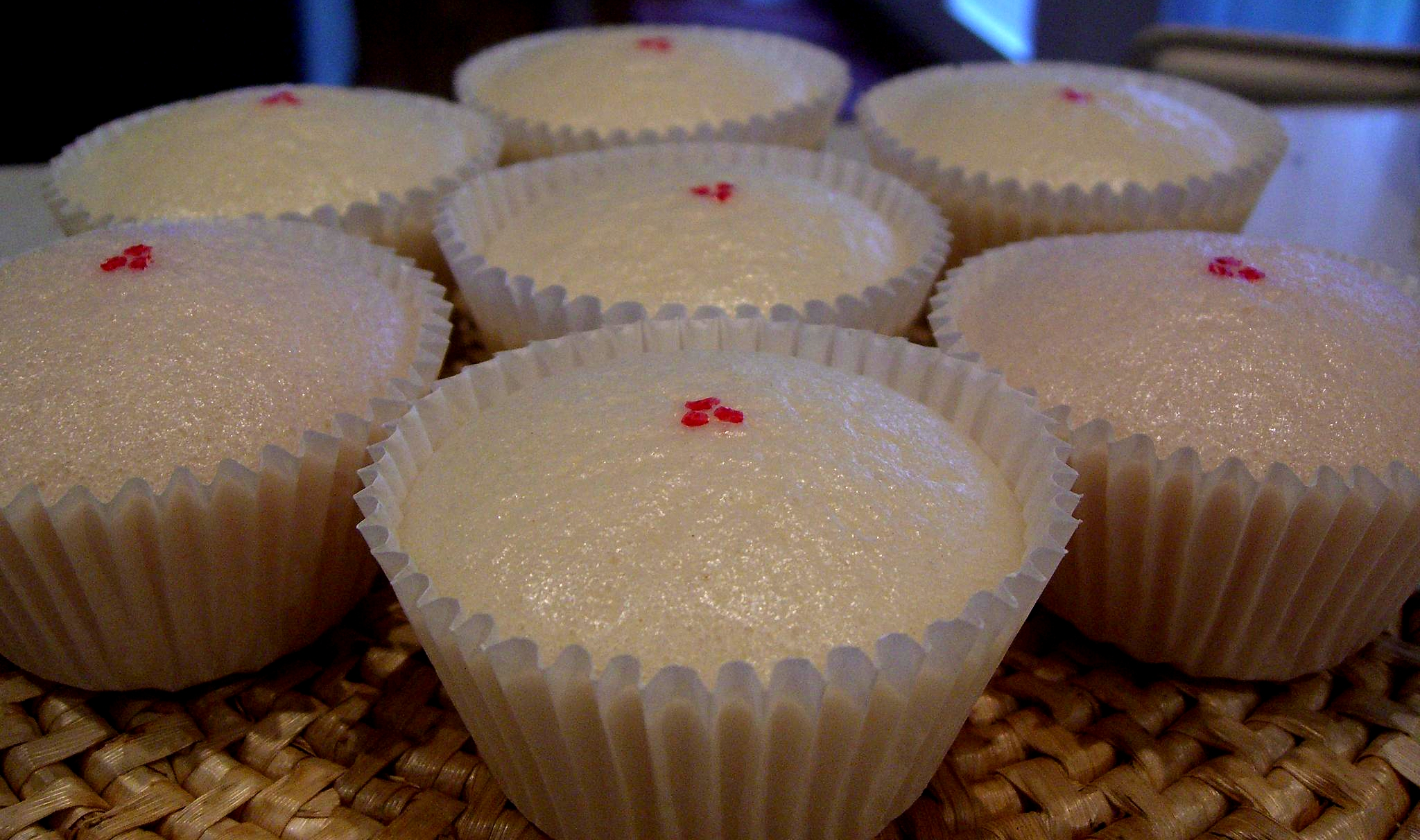 Julia's 發糕 Steamed Rice Cakes, made with rice flour and yeast, fermented overnight. The trick of drizzling sugar in the middle of the rice cake ensures as 笑口 "happy laughing" cake.